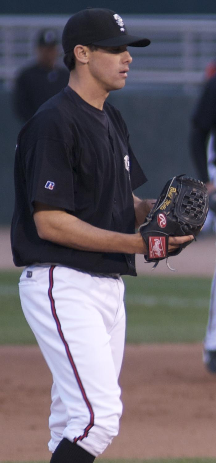 Brad Mills pitching. West Michigan @ Lansing 05092008